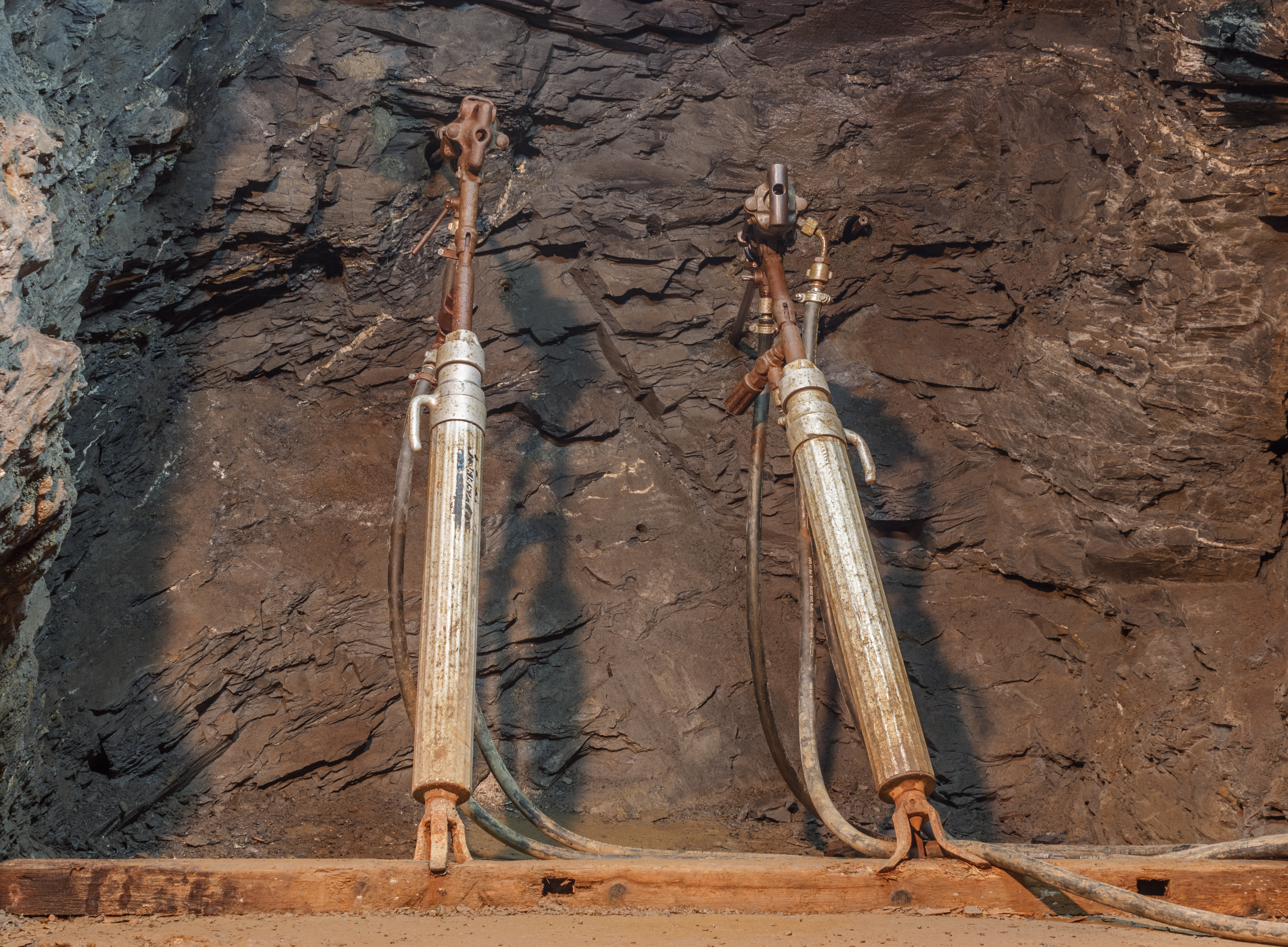 Pneumatic rock drills in Rammelsberg Mining Museum near Goslar, Lower Saxony, Germany